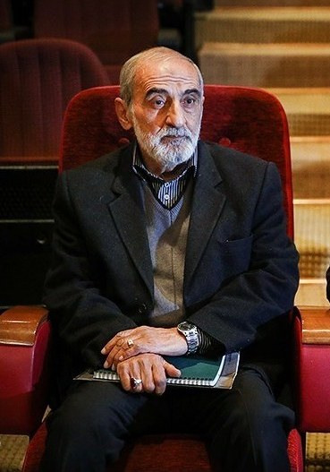 Hossein Shariatmadari in Radio and Television University On the occasion of Student Day